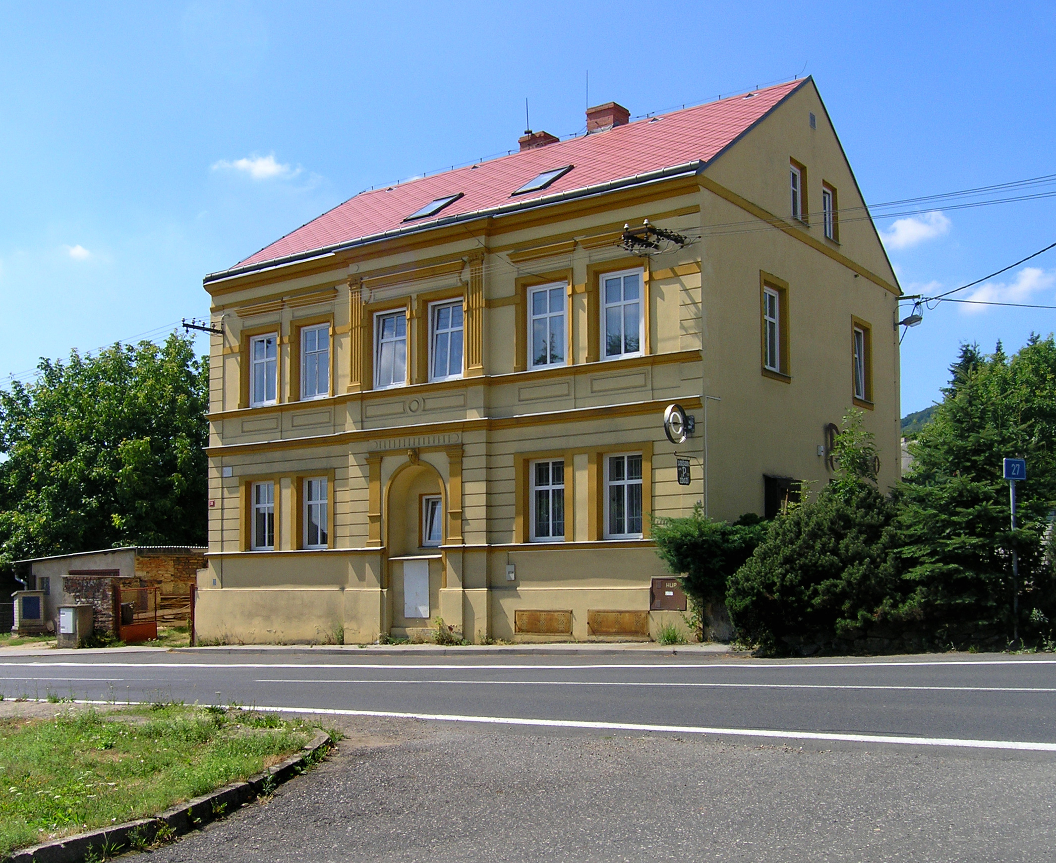 Old school building in Křižanov, part of Hrob town, Czech Republic